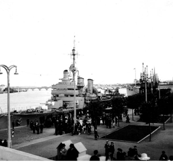 HSwMS Gotland in Bordeaux 1939